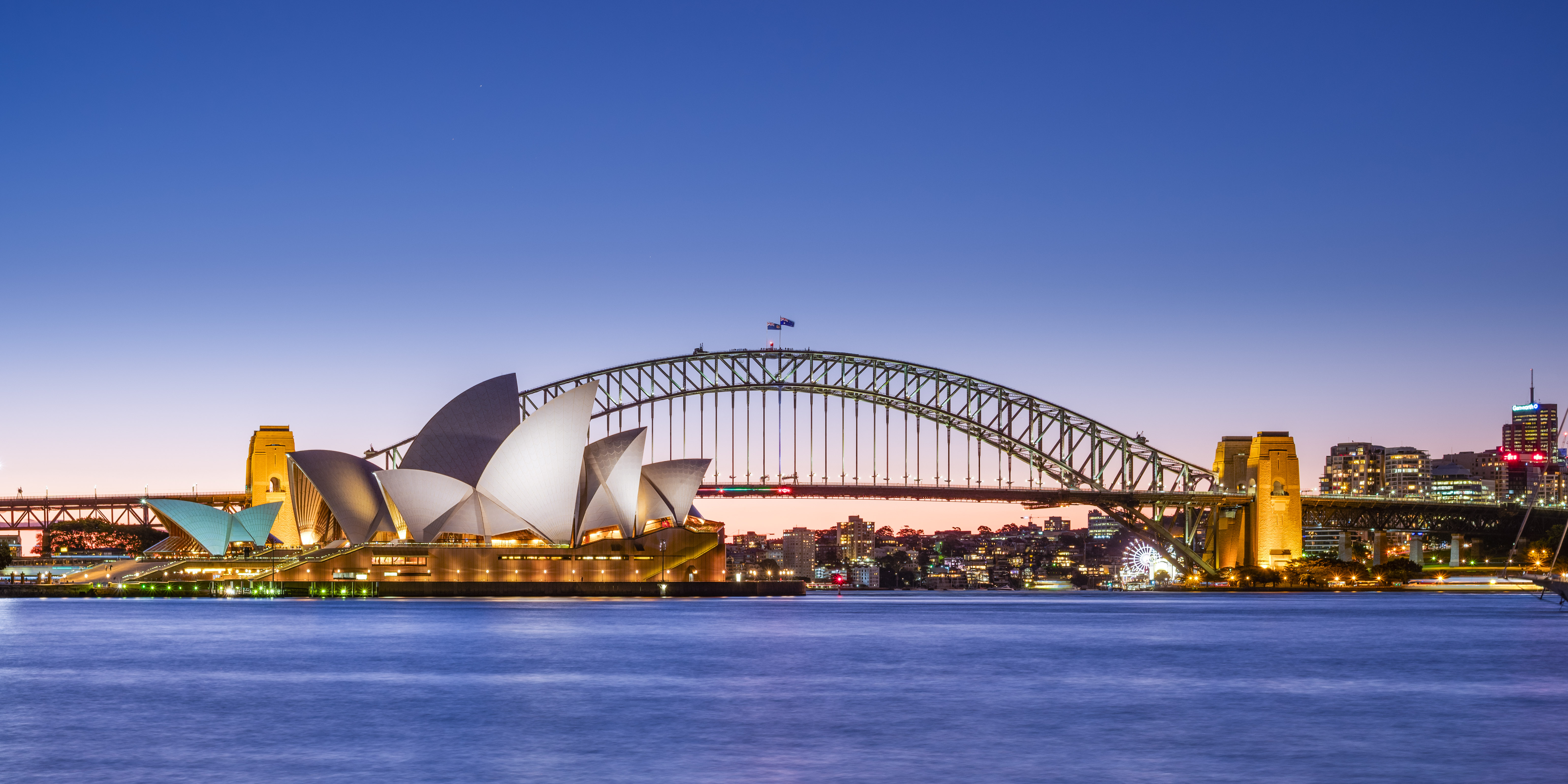 Jørn Utzon's Sydney Opera House, and the Harbour Bridge, two of Sydney's most famous landmarks, taken at late dusk. The Sydney Opera House is one of the most iconic buildings built in the 20th century (1973) and is UNESCO's world heritage.